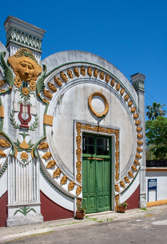 The elaborate frontage of the cinema on Martin Garcia Island in the River Plate